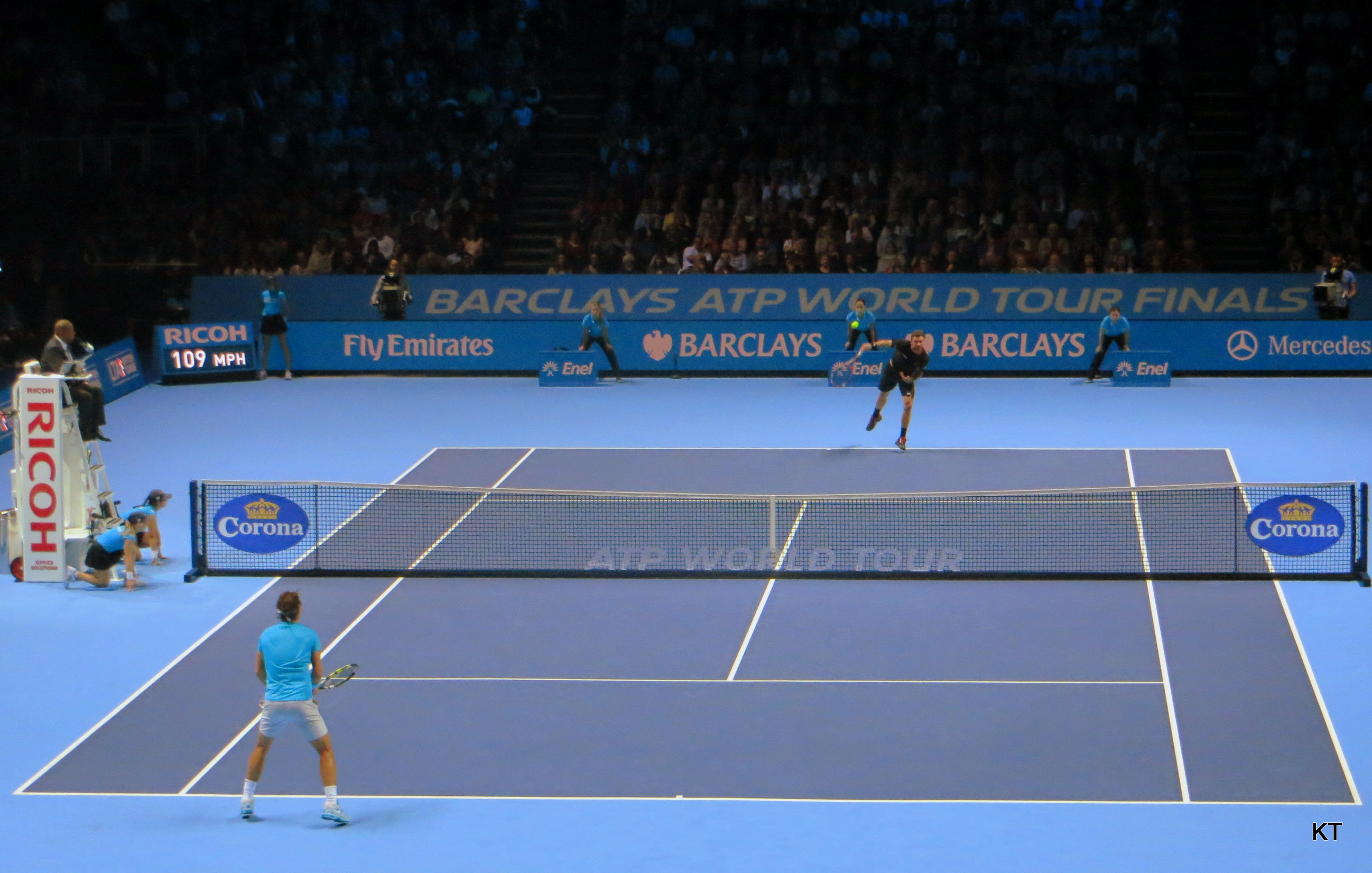 Wawrinka (far end) serving to Nadal.